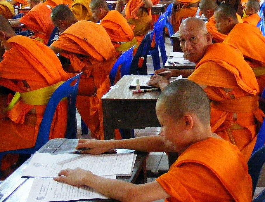 Examination of Buddhist monk In Uttaradit Location: Wat Klongpho .in Ban Ko subdistrict, Mueang Uttaradit, Uttaradit Province, Thailand.